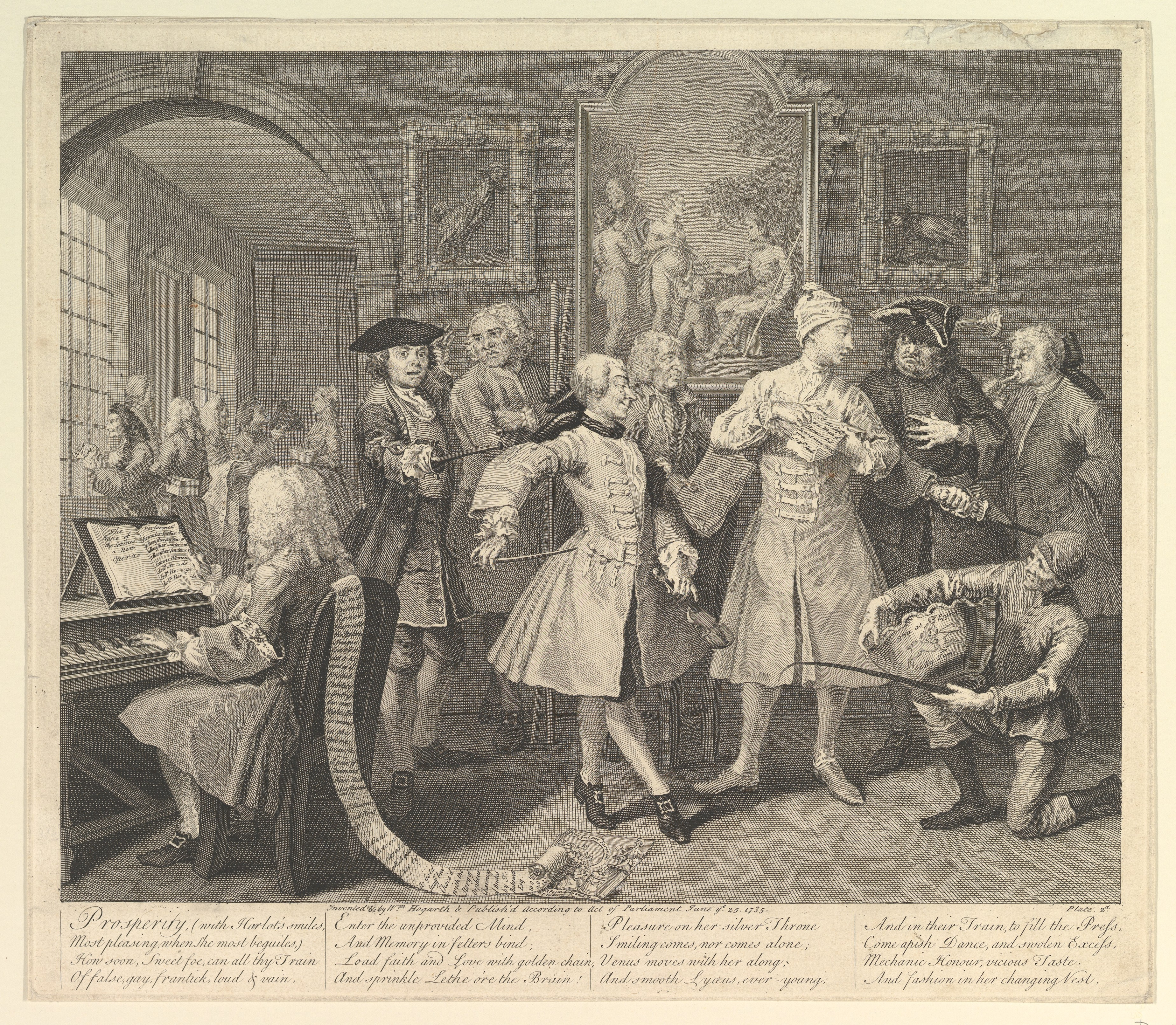 Print; Prints